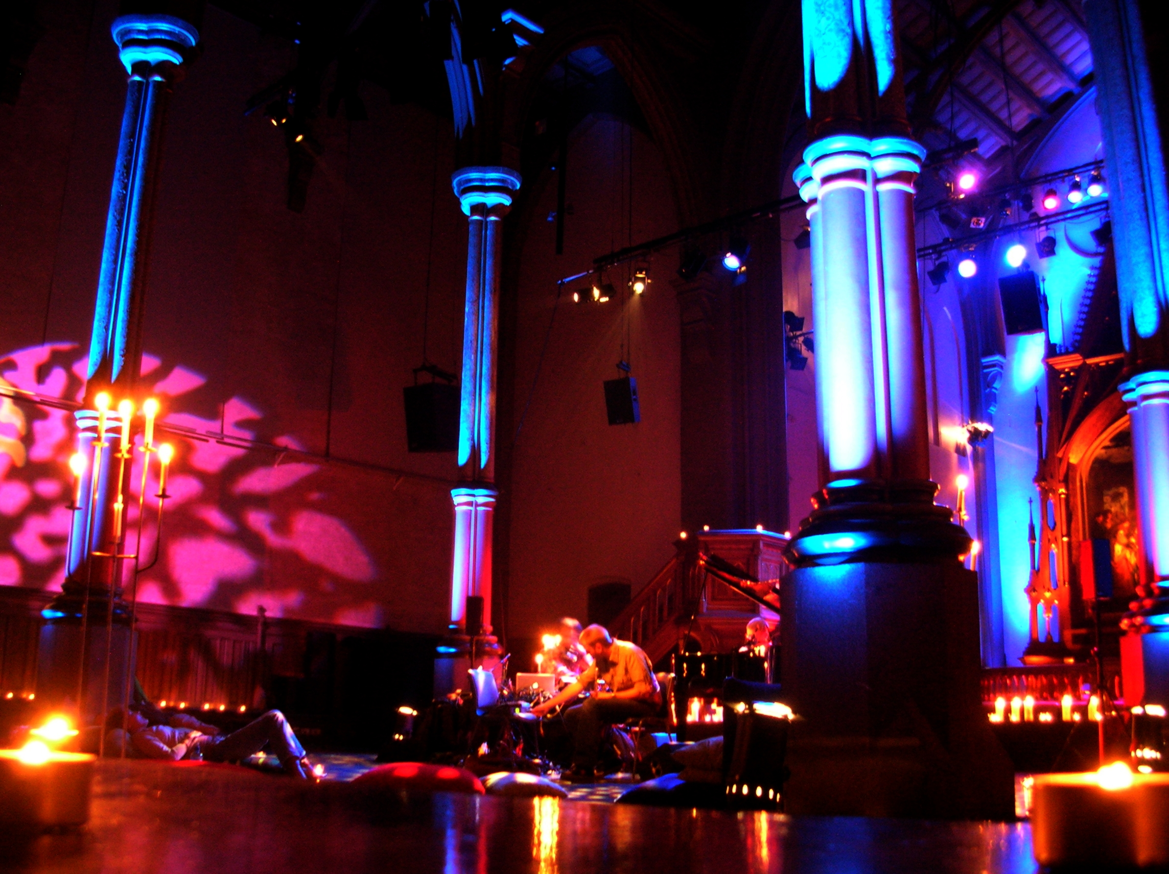 Concert Psalms in Kulturkirken Jakob in Oslo (Norway)